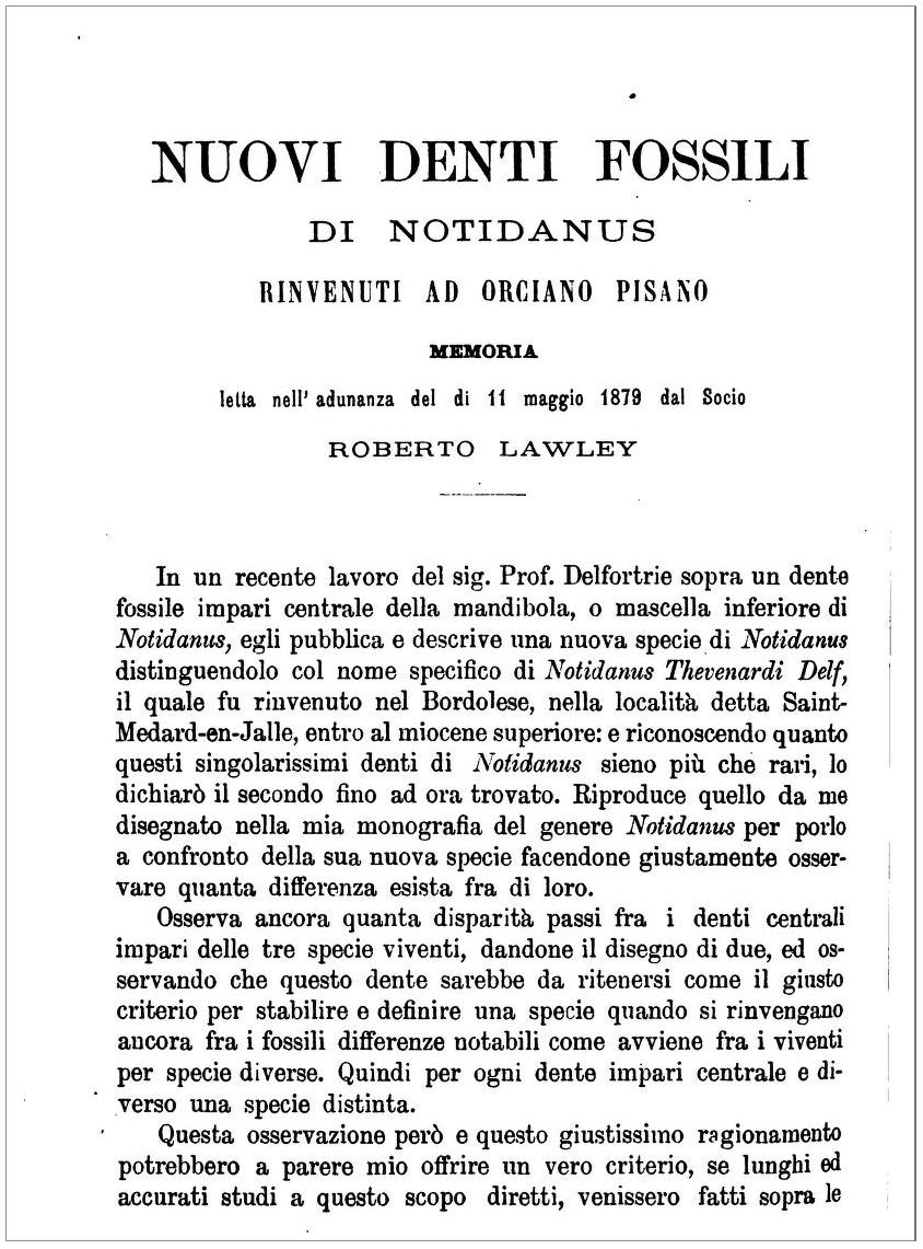 Roberto Lawley, 1879 : Nuovi denti fossili di Notidanus rinvenuti ad Orciano Pisano. Atti della Società Toscana di Scienze Naturali, Vol. IV, pag. 196-202